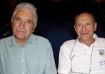 Joske Ereli (right) and Jack Steinberger (left) in Bad Kissingen (2008)